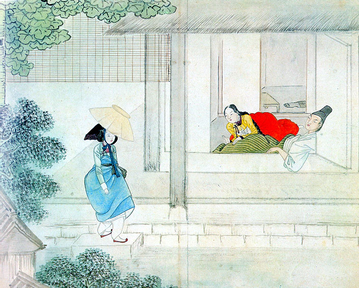 "Nothing happening in the kisaeng chamber," (traslit. title:Gibang musa) from Hyewon pungsokdo by 19th-century Korean painter Hyewon. Original stored at Gansong Art Museum in Seoul, South Korea